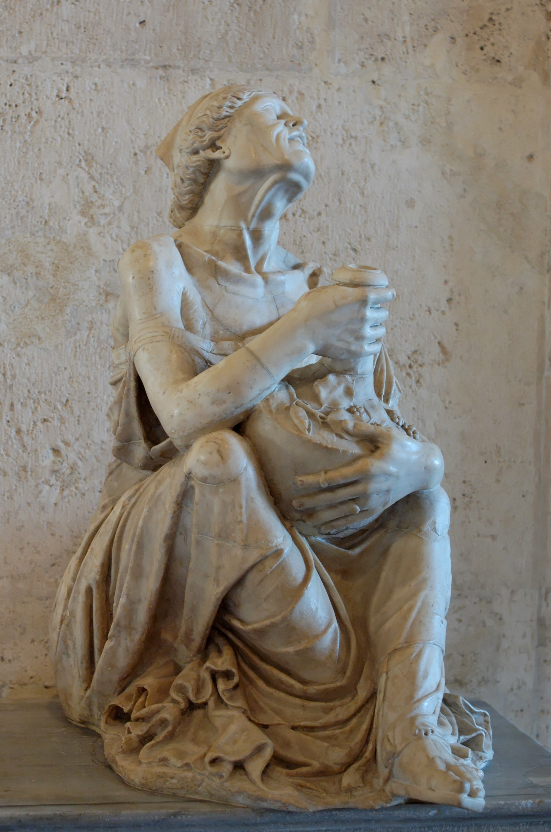 Old drunken woman. Marble, Roman copy after an Hellenistic original.